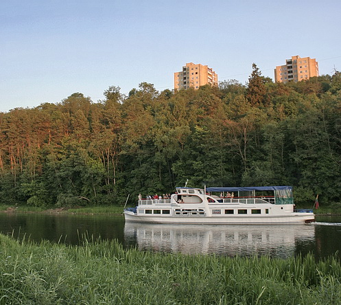 River trip in Neris River along Žirmūnai